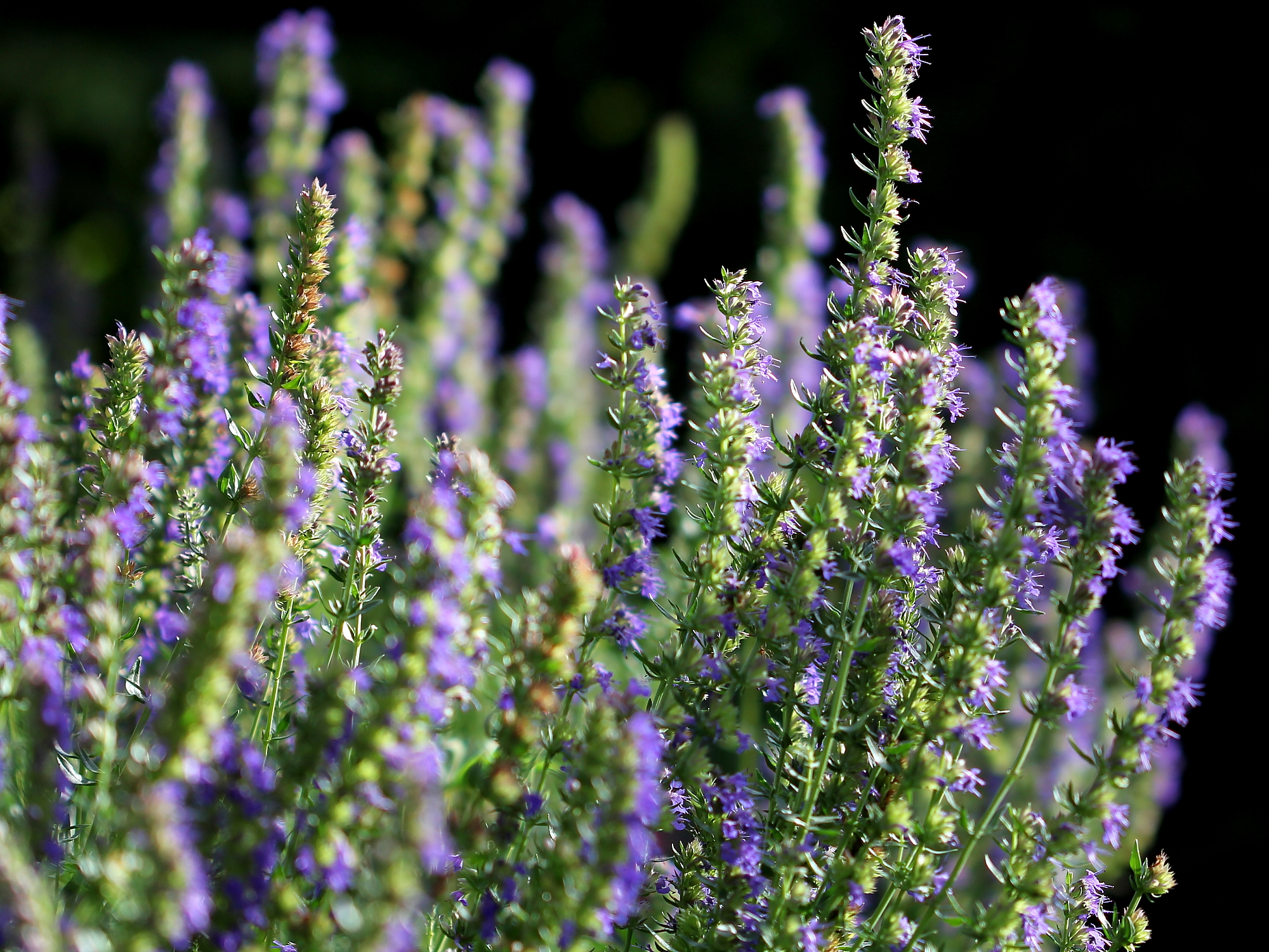 Hyssopus plant, picture taken in private garden